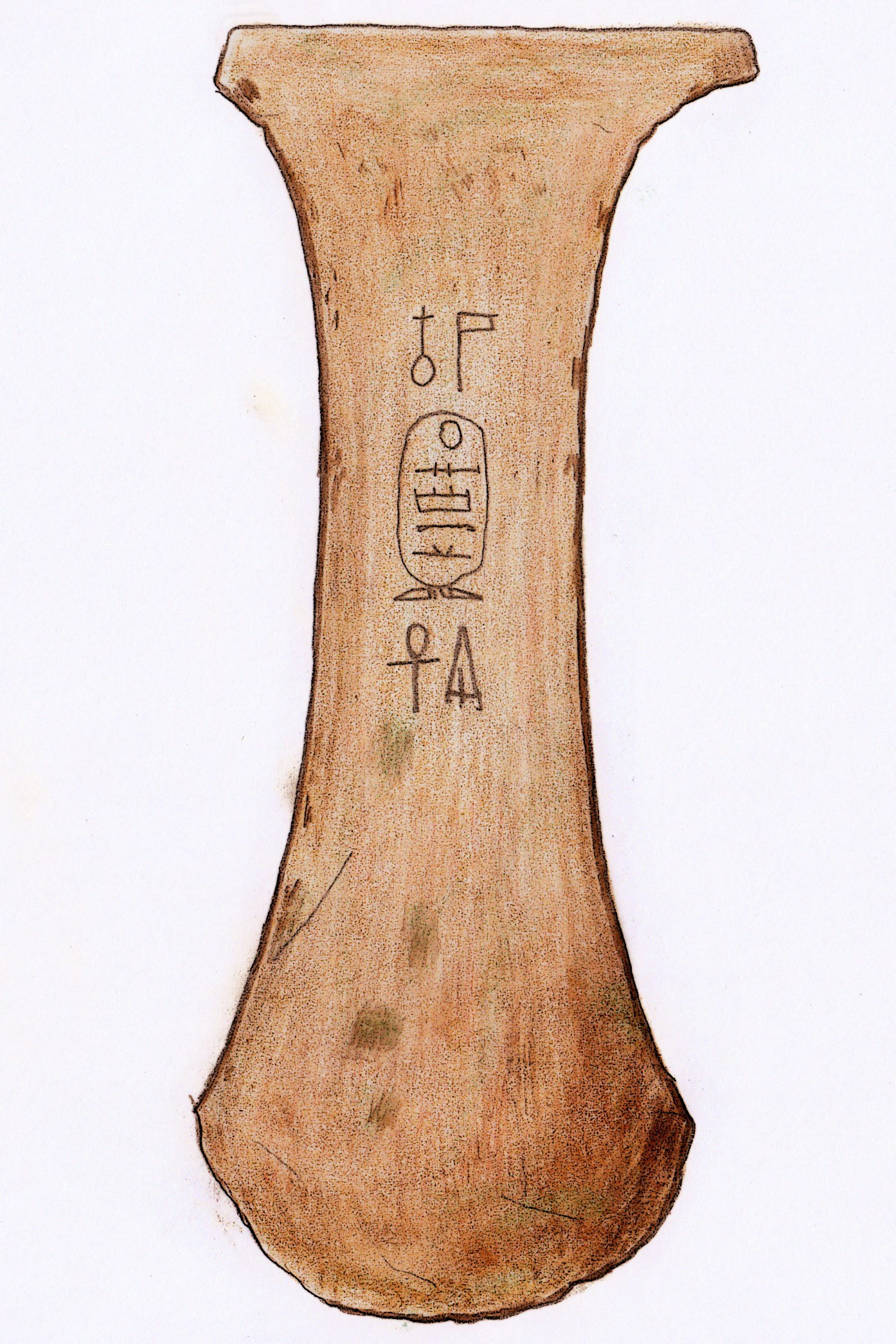 Drawing of an ancient Egyptian axe head bearing the name of pharaoh Semenenre (or Smenre, Semenre). Tin-bronze, unknown provenance, max length 13.6 cm, reign of Semenenre, 16th or 17th Dynasty, Second Intermediate Period. Petrie Museum UC30079.